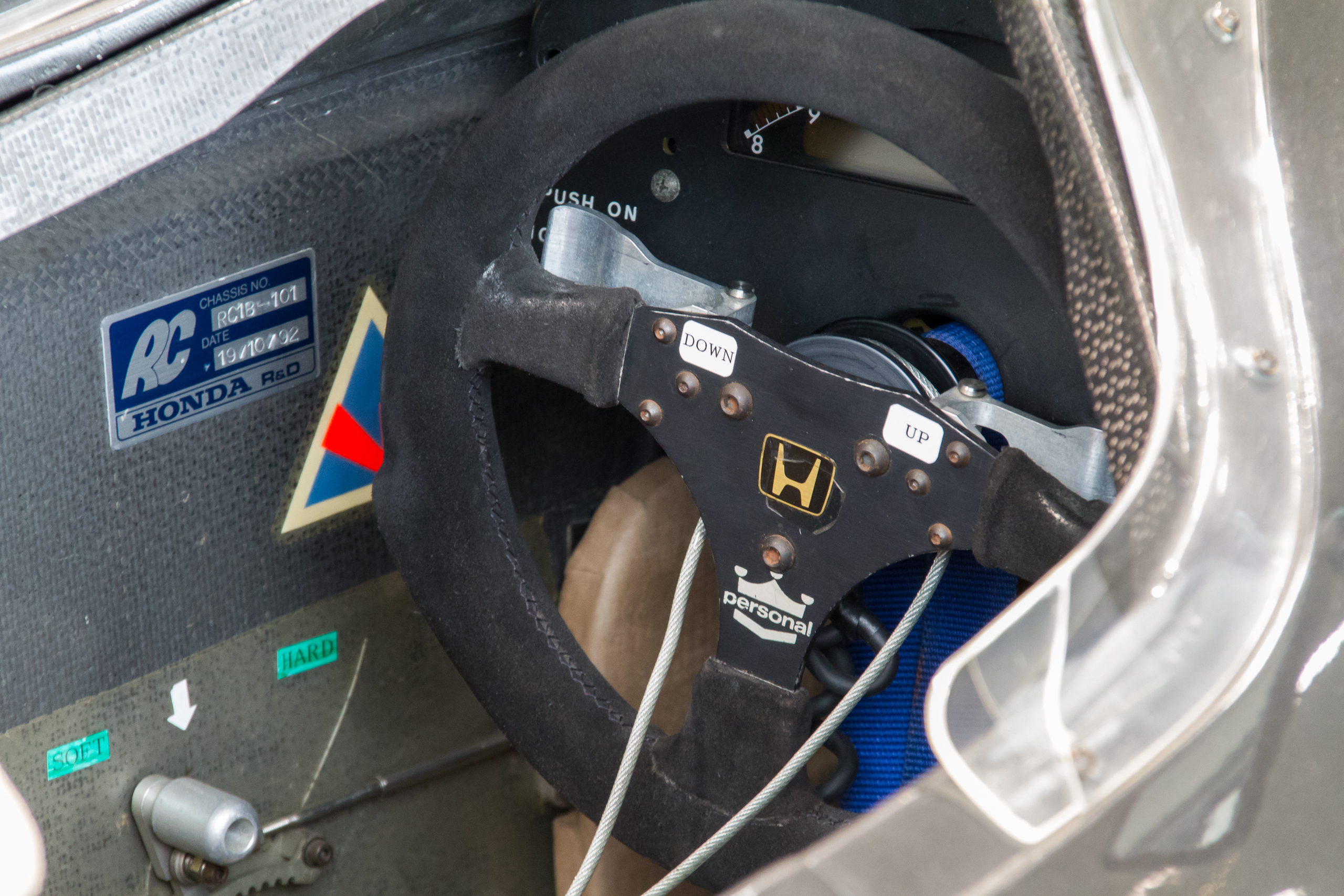 1992 Honda RC-F1 1.5X